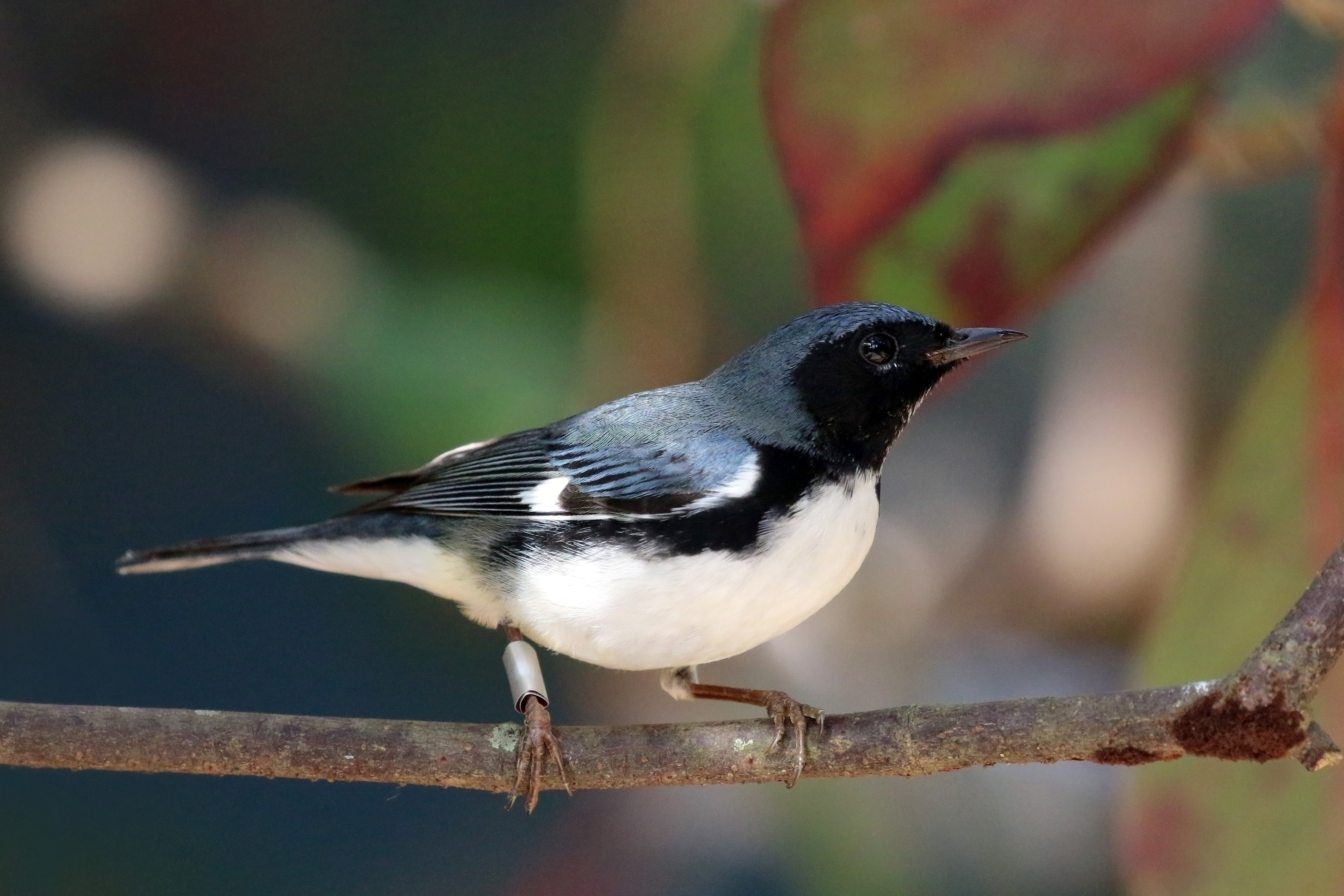 Black-throated blue warbler (Setophaga caerulescens) male, Cuba